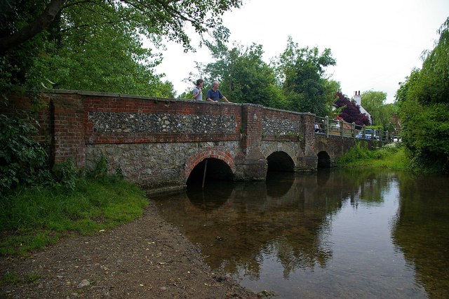 The bridge over the Darenth at Shoreham, showing the disused ford.